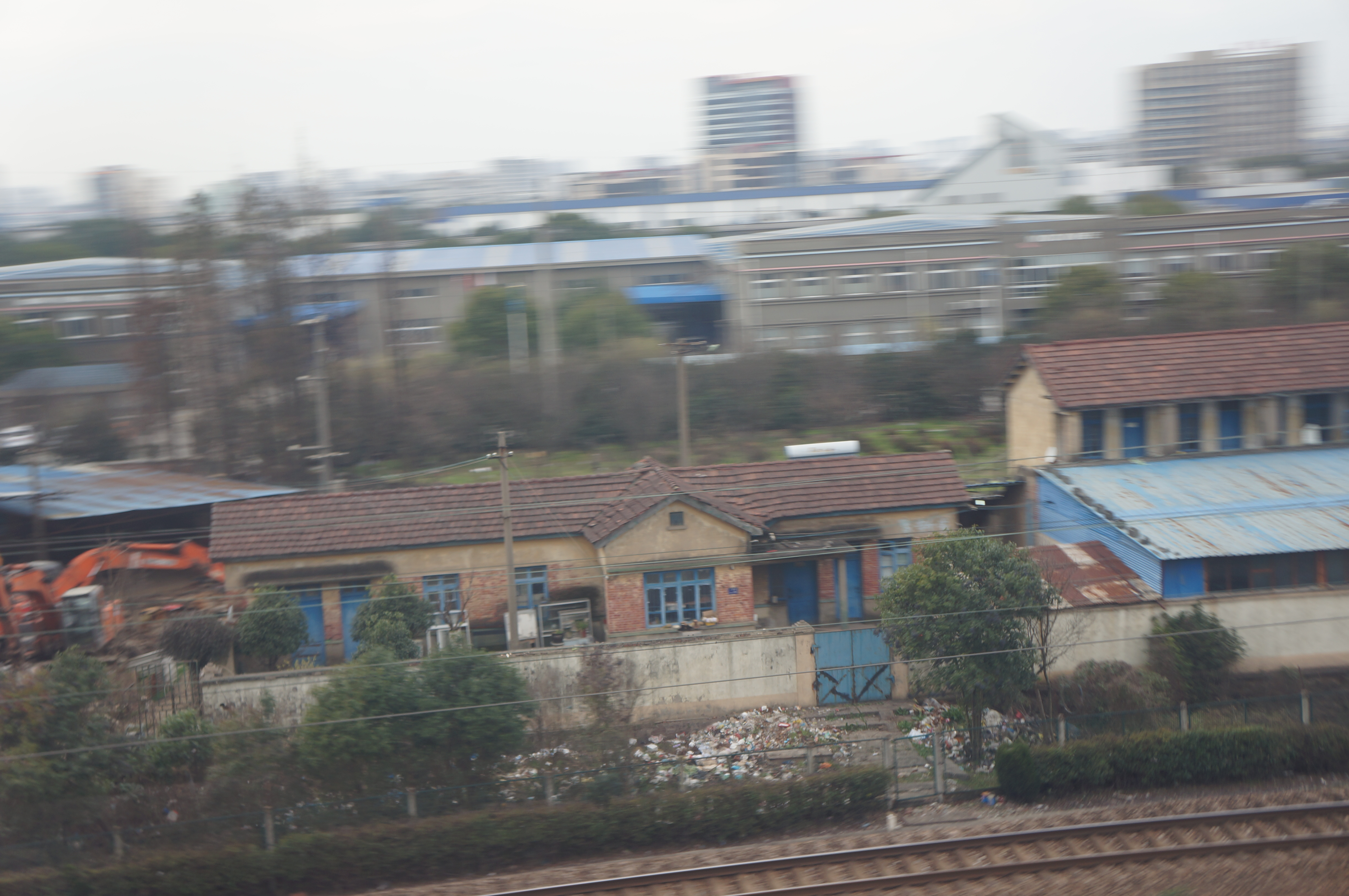 201701 Abolished Xiexing Station